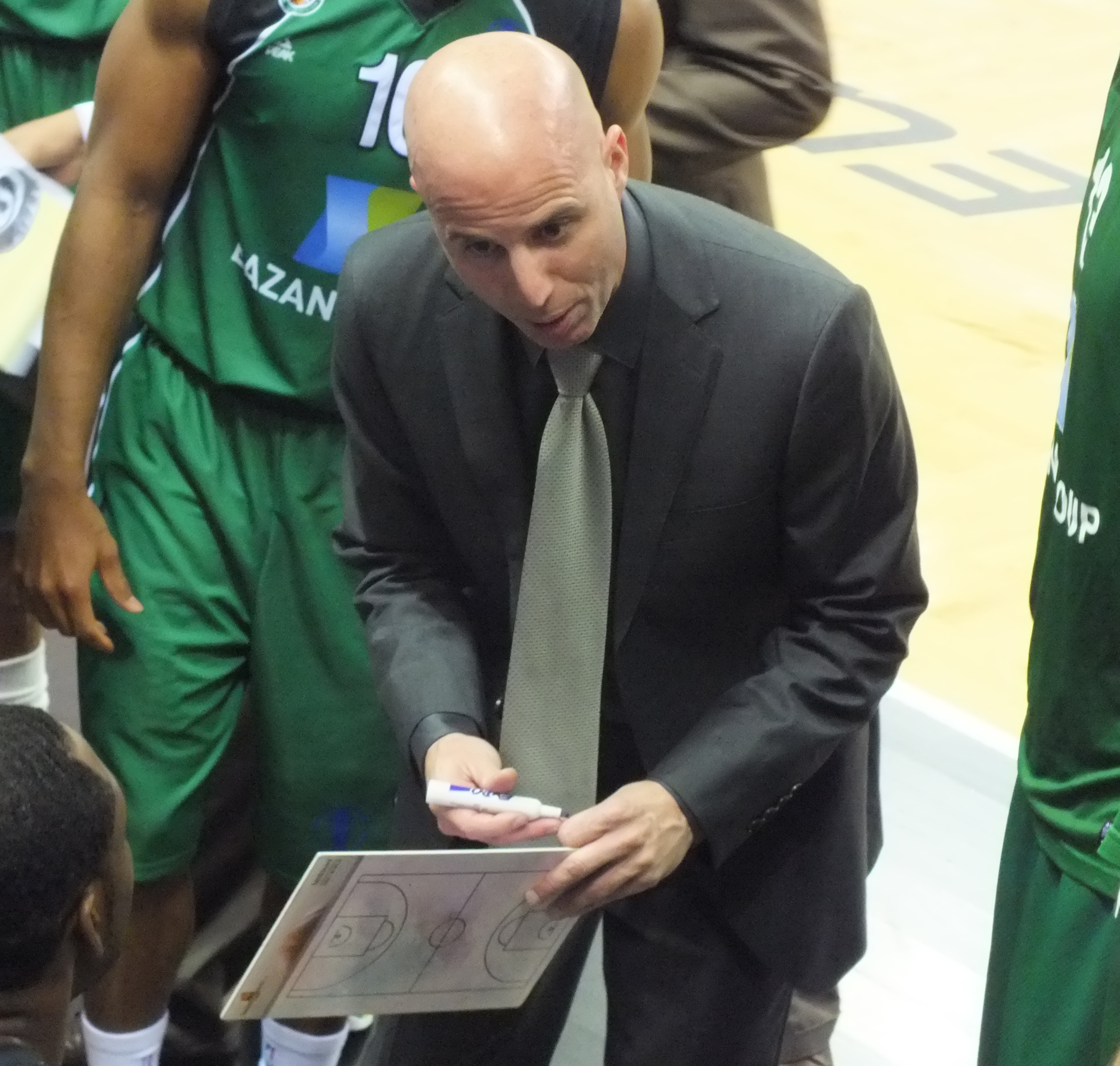 Coach.